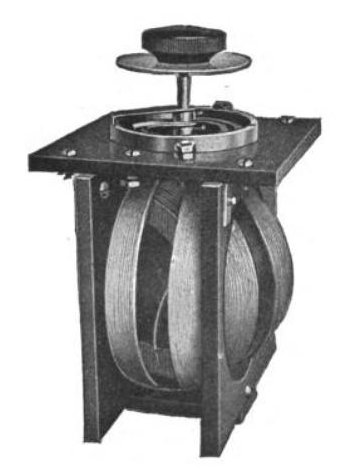 A variometer, an adjustable air core inductor used in radio equipment, from a 1920 book on radio. It was widely used in radio receivers during the 1910s and 20s. Today it is mostly used in transmitter antenna tuners and matching sections for low frequency antennas, to match the transmission line to the antenna. It consists of two coils of wire with the same number of turns, connected in series. The inner coil is mounted on a vertical shaft that allows its axis to be turned with respect to the outer coil. When the inner coil's axis is parallel to the outer coil and their magnetic fields are in the same direction, their magnetic fields add, so their inductance is maximum. When the inner coil is turned so that it's axis is at an angle to the other, the mutual inductance between them is smaller so the total inductance is less. When the inner coil is turned 180° so its axis is parallel with the outer but their magnetic fields are in opposite directions, they subtract so the total field, and thus the total inductance, is very small. Thus the inductance can be continuously adjusted over a wide range.